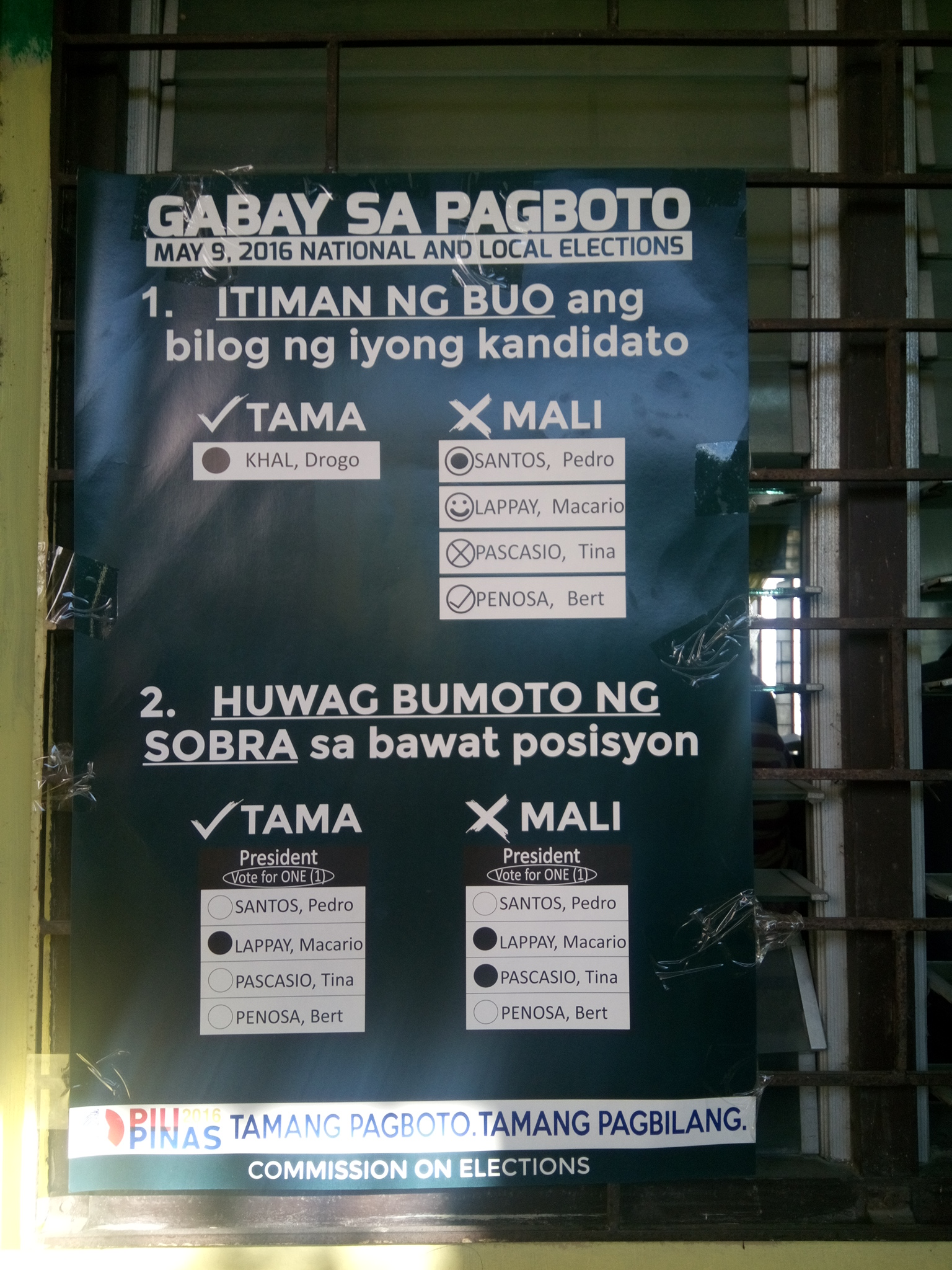 Instructions on how to vote posted outside polling precincts during the 2016 Philippine election. Translation: "GUIDE FOR VOTING May 9, 2016 NATIONAL AND LOCAL ELECTIONS 1. Fully shade the circle per candidate. Correct : Wrong 2. Don't overvote per position. Correct : Wrong PiliPinas: Right Voting, Right Counting Commission on Elections"